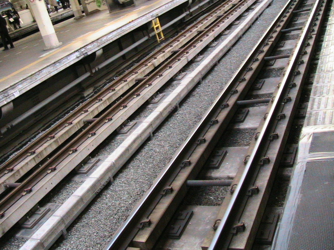 Floating ladder tracks at Shinagawa Station